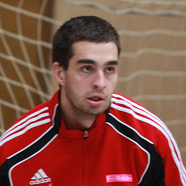 Szilveszter Liszkai, Hungarian handball goalkeeper, on August 14th, 2010 in Ehingen (Germany), during the Schlecker Cup 2010.